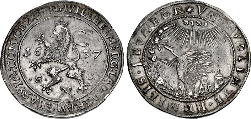 GERMANY, Hessen-Kassel (Landgrafschaft). Wilhelm V der Beständige. 1627-1637. AR Weidenbaumtaler (44mm, 28.72 g, 6h). Kassel mint. Dated 1637. * WILLHELM 9 • D : G : LANDGRAVI9 • HASSIÆ : COM : C : D : Z : ETN, crowned lion rampant left; 16 37 above • G • • K • across field; between legs, crossed picks / (star) VNO • VOLENTE • HuMILIS • LEVABOR, large willow tree being blown in thunderstorm and struck with lightning; village buildings and churches on either side; radiate YHWH in Hebrew (tetragrammaton) above. Schütz 910; Davenport A 6764. Good VF, toned, small edge flaw at 10 o’clock on reverse.